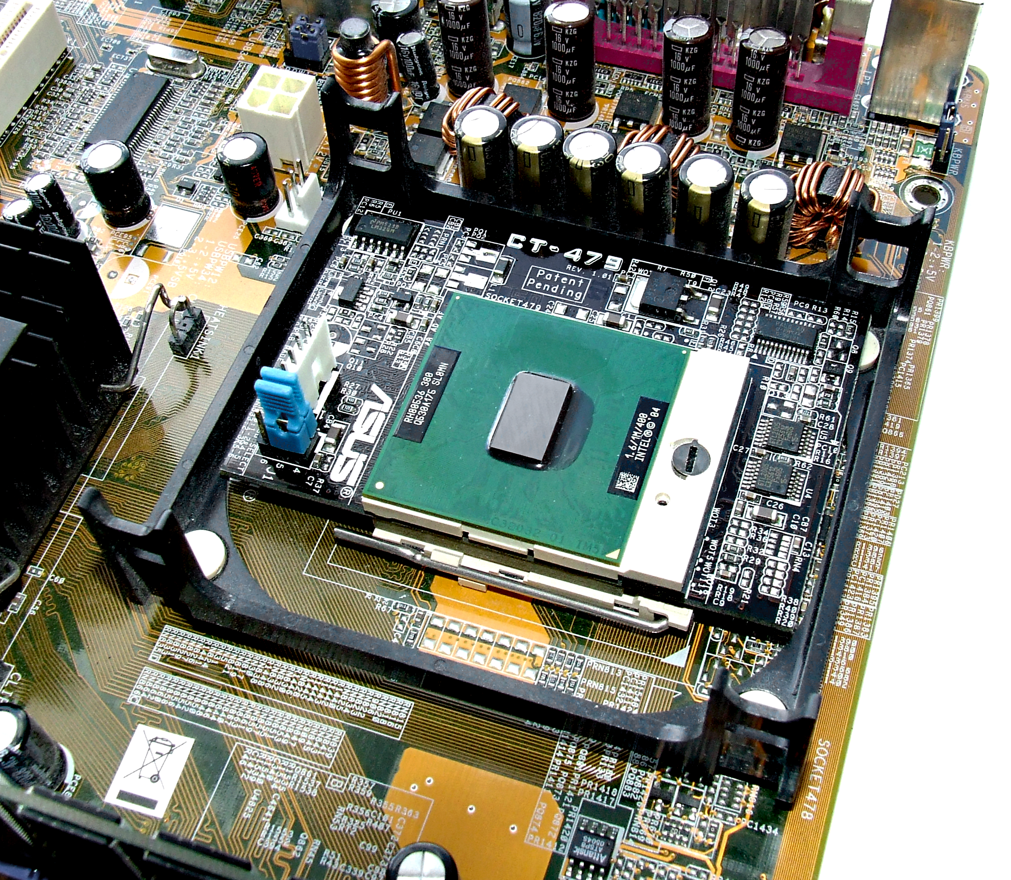 ASUS CT-479 adapter attached to a ASUS P4GPL-X (socket 478, i915PL + ICH6) motherboard. The CT-479 allows for the installation of first-generation Pentium M as well as Celeron M mobile CPUs (Banias and Dothan) on certain motherboards, the P4GPL-X being one of them. The model used here is a Celeron M 380 with 1.6 Ghz.